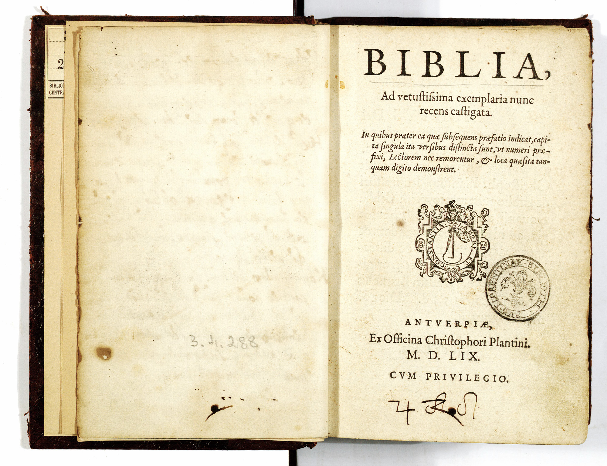 Frontispiece of the Leuven Vulgate, ed. 1559, Antwerp: Christophe Plantin. A reprint of the 1547 edition of the Leuven Vulgate.